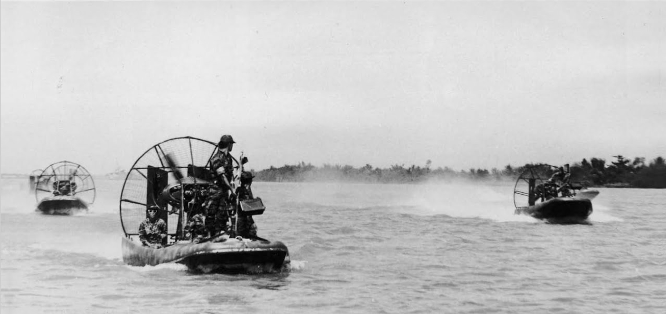 5th Special Forces Company D Aircat airboats travel in formation on the Mekong River in 1966.